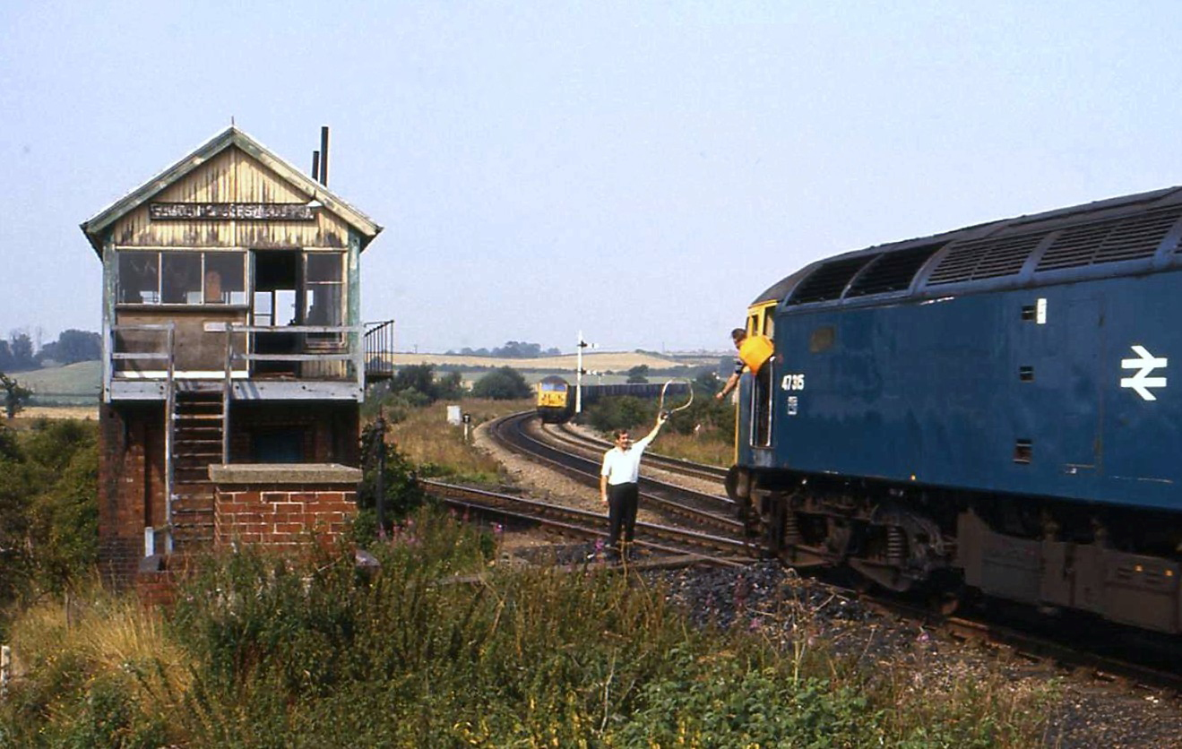 The driver of 47315 takes the token for the branch to Seymour Jct whilst 56003 waits in the distance. Sadly neither 47315 or Ken, the signalman are with us anymore but 56003 survives as 56312 "Artemis"